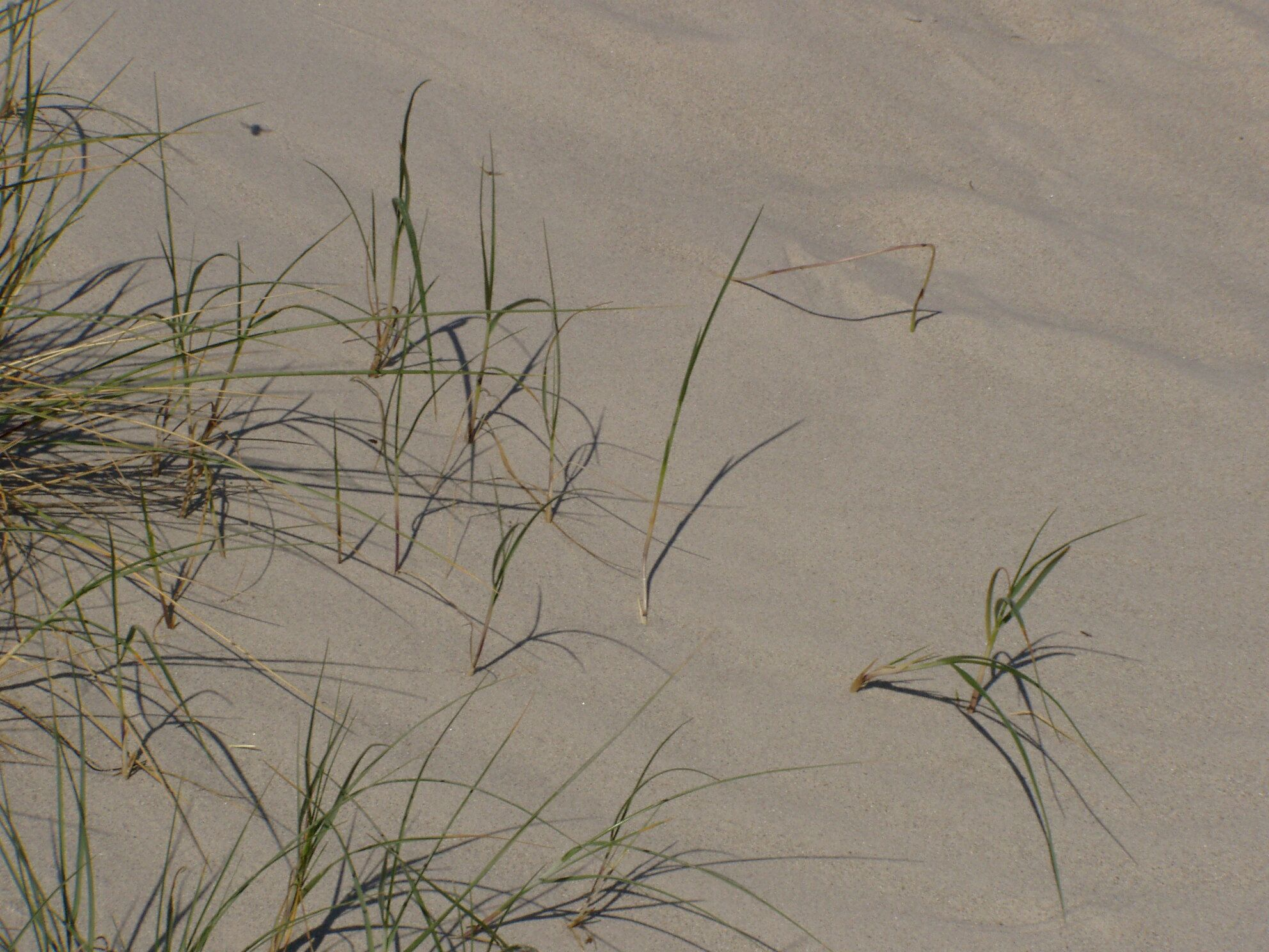 Ammophila arenaria on island Düne near Heligoland